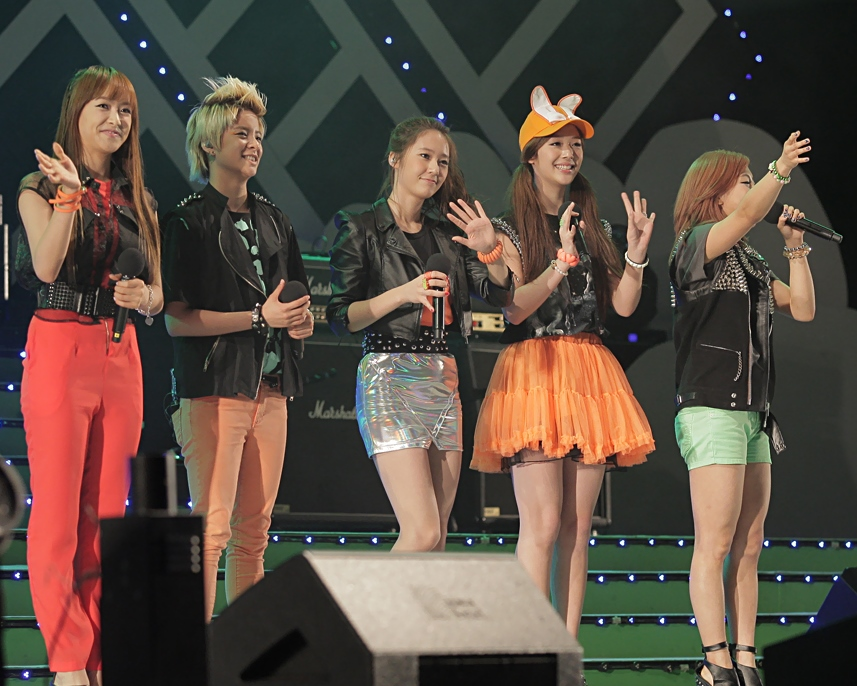 f(x) at the Music Show in Seoul Plaza on July 4, 2011.